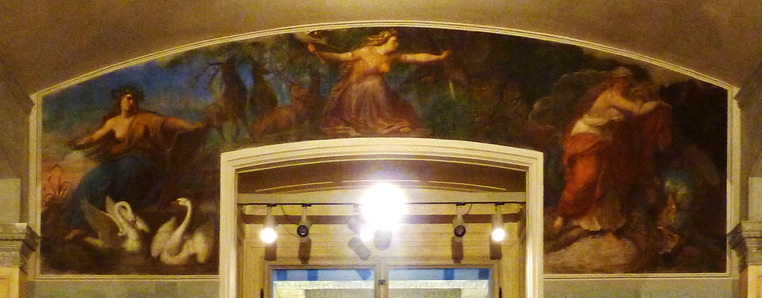 Mythological fresco by Gustav Heidenreich in the "Fatherland Hall" of the New Museum, Berlin, illustrating the Edda. The three Norns stand for the belief in fate. On the left, Urd sits at a well (the stream of time) with the prophesying swans. As the Norn of the past, she inscribes on a shield runes that give information about completed destiny. In the center, Verdandi, the Norn of the present, is spinning the thread of life or destiny. Skuld stands for the future. She waters the ash tree Yggdrasil and thereby cares for the continuation of history. Yggdrasil is the world tree whose roots reach into the underworld and whose branches reach into the heaven of the gods. Various animals live in it. Stags eat its branches, and the dragon Nidhöggr gnaws on its roots. (Museum text)